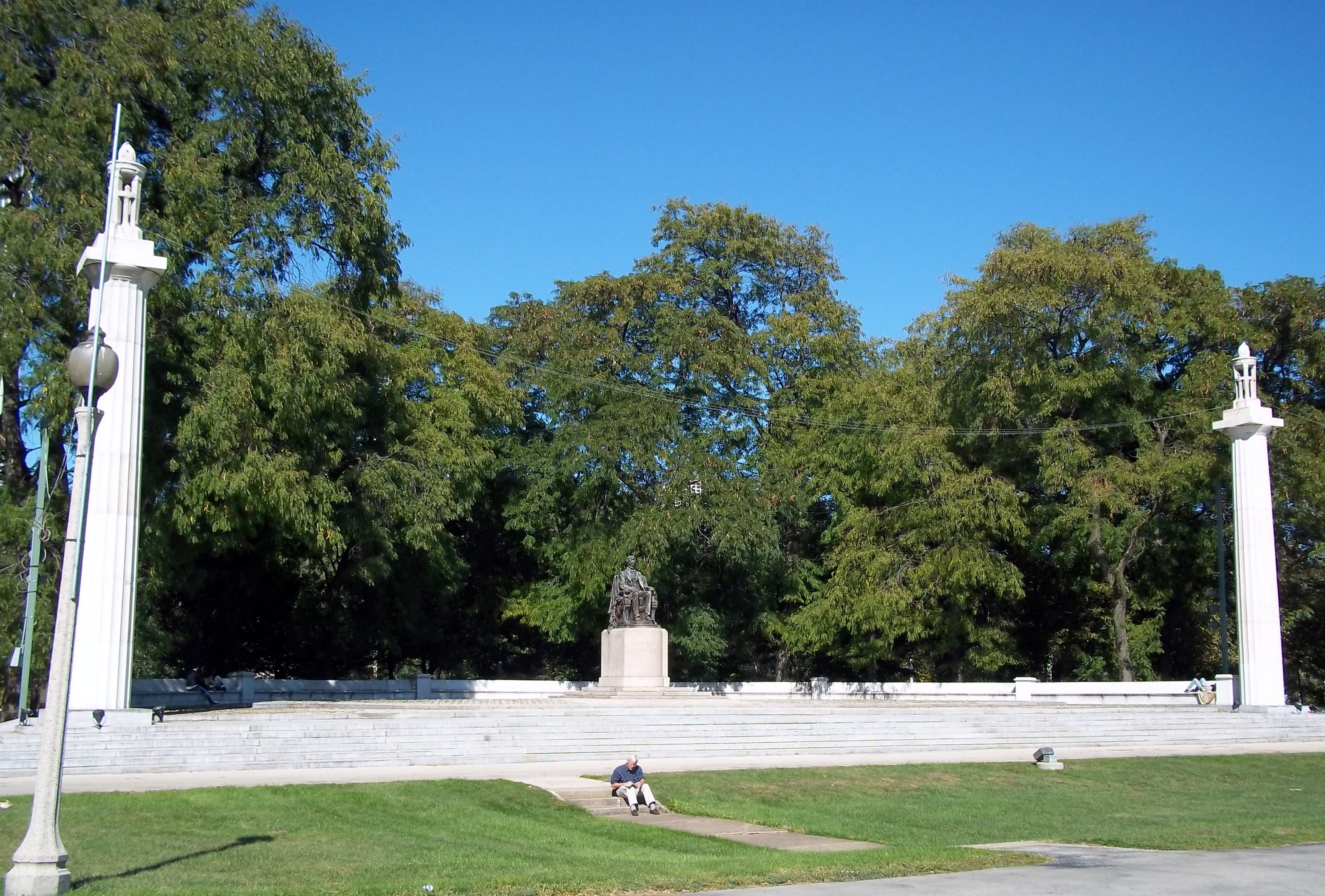 "Sitting Lincoln" monument in Grant Park Chicago. Abraham Lincoln 16th President of the United States. Statue by Saint-Guadens first displayed in 1908. Statue is set on a pedestal and exedra designed by architect Stanford White.